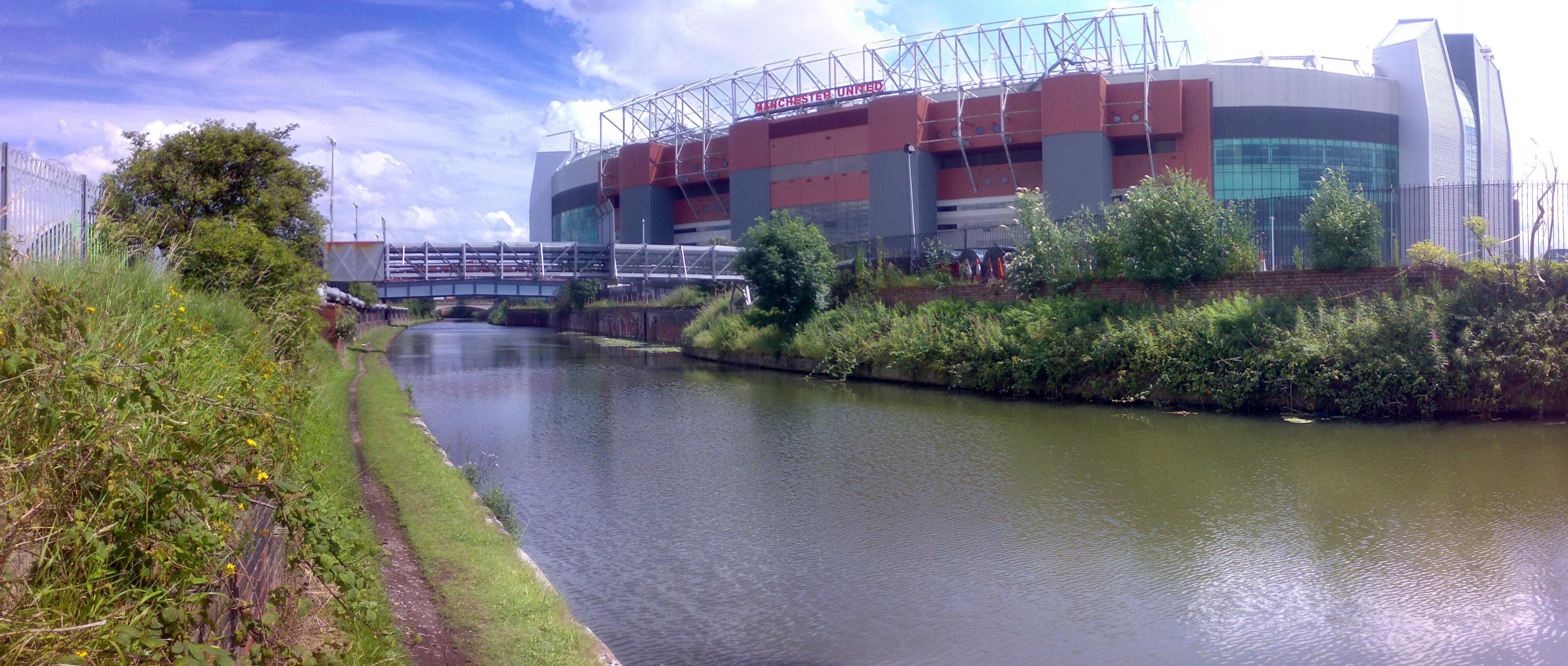 Bridgewater canal heading east as it passes Manchester United